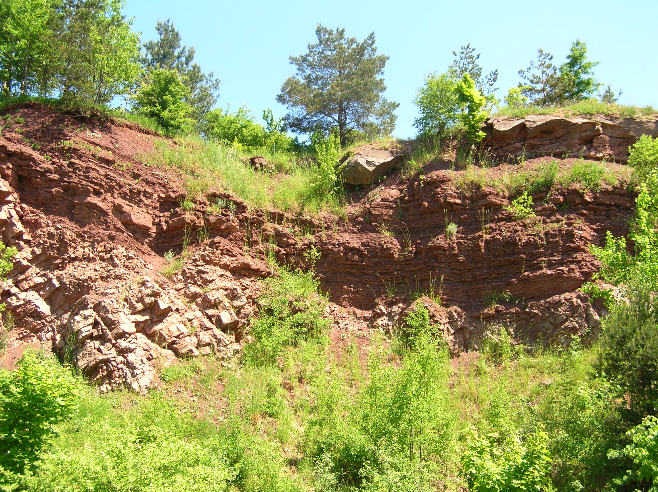 Angular unconformity between Middle Devonian dolomites and Lower Triassic red sandstones. Quarry in Zachełmie, Poland